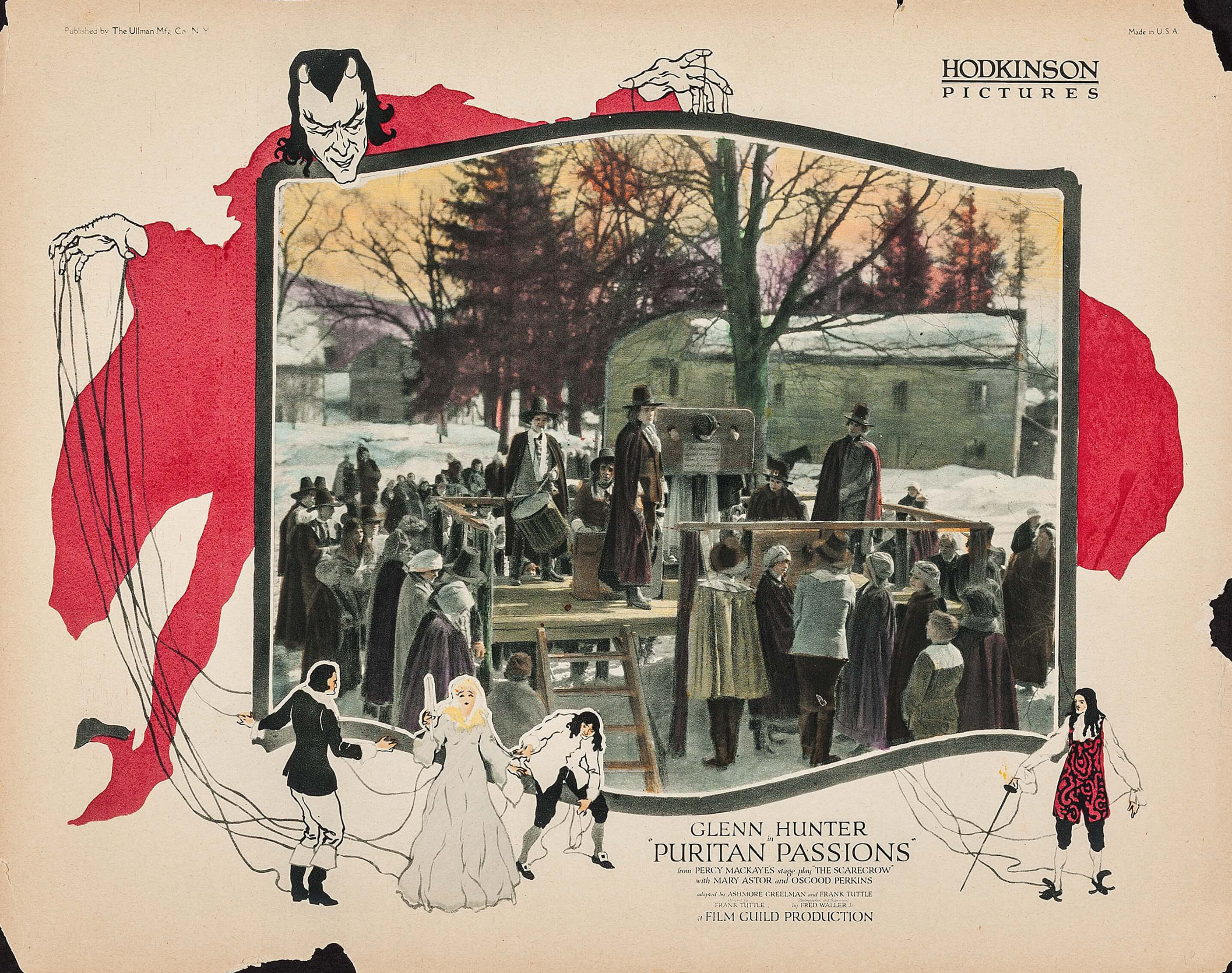 Puritan Passions is a 1923 silent film directed by Frank Tuttle, based on Percy MacKaye's 1908 play The Scarecrow, which was itself based on Nathaniel Hawthorne's short story "Feathertop". Published pre 1978 with no copyright notice.